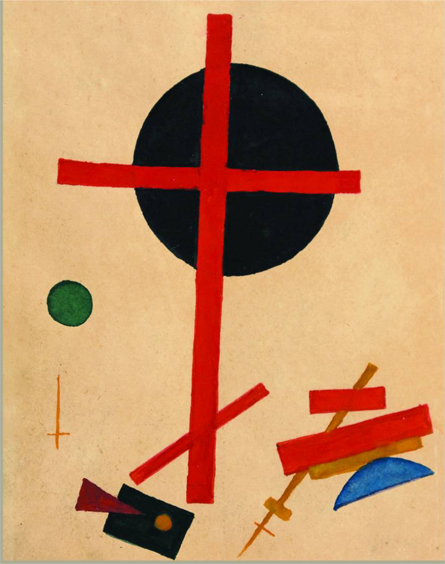 Kazimir Malevich. Suprematism No 65, 1915 Parkhomivka Historical and Art Museum